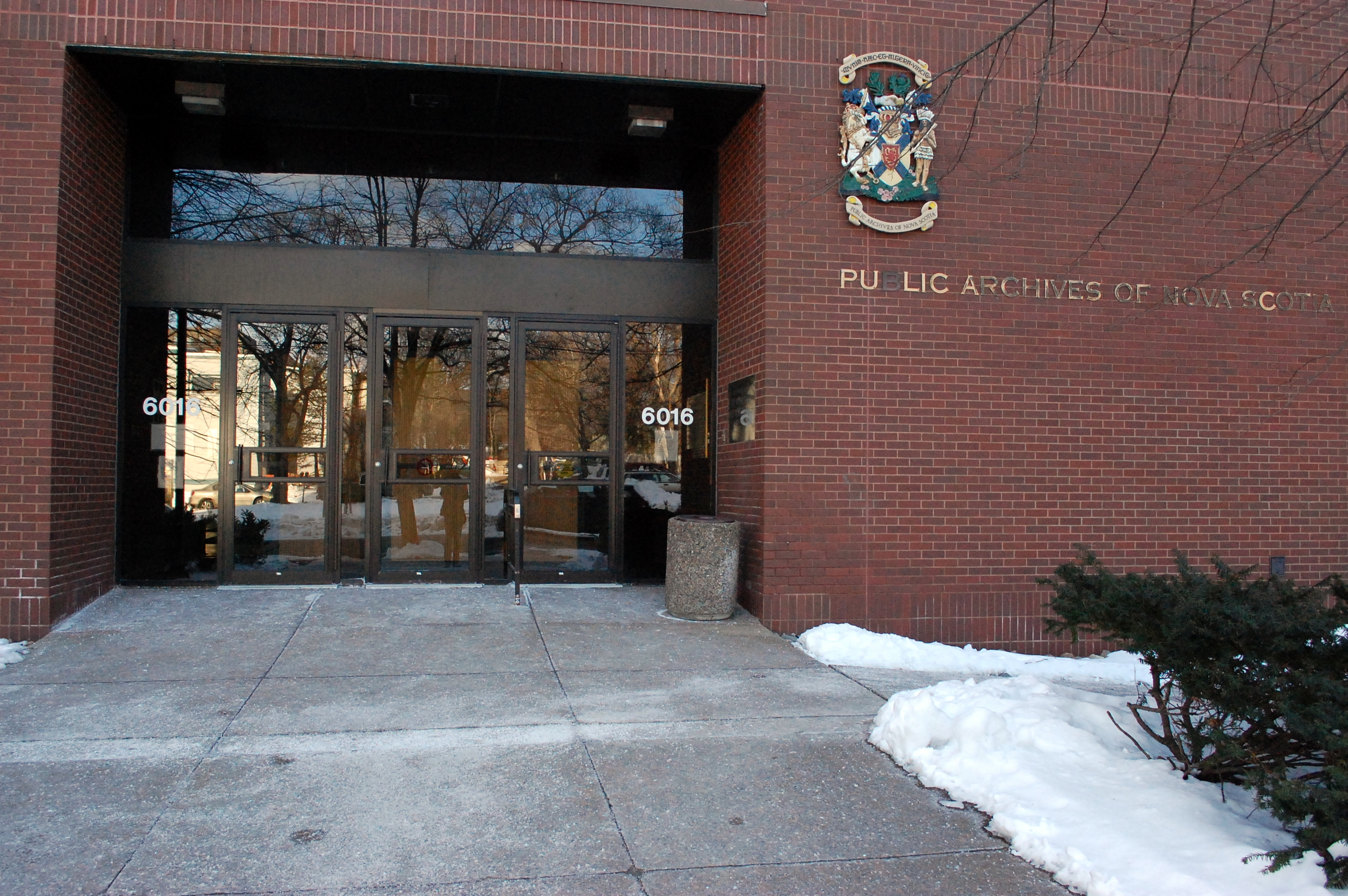 Front doors, forecourt and signage of the Nova Scotia Archives on Robie Street and University Avenue, Halifax, Nova Scotia, Canada.